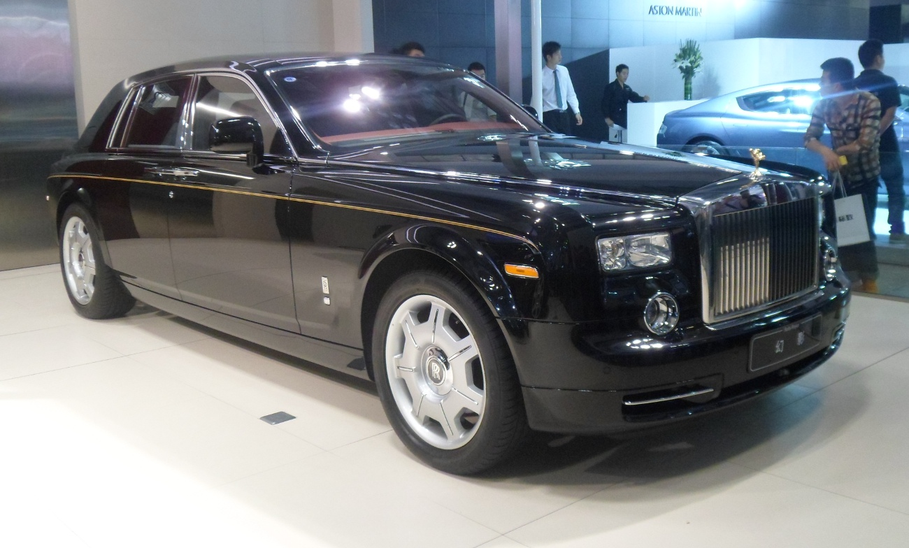 Rolls-Royce Phantom photographed at the 2012 Chongqing Auto Show, Chongqing, China.